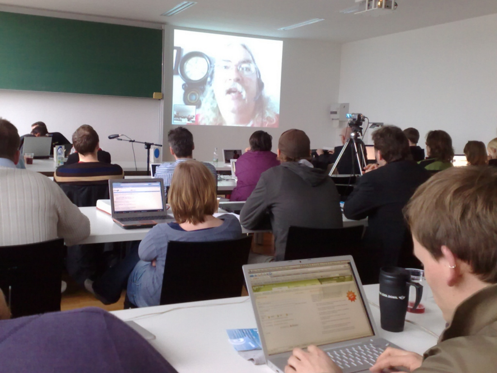 Session at EduCamp 2008 # 1 at the Technical University in Ilmenau (Thuringia, Germany), here with a live connection of the Canadian e-learning expert Stephen Downes.